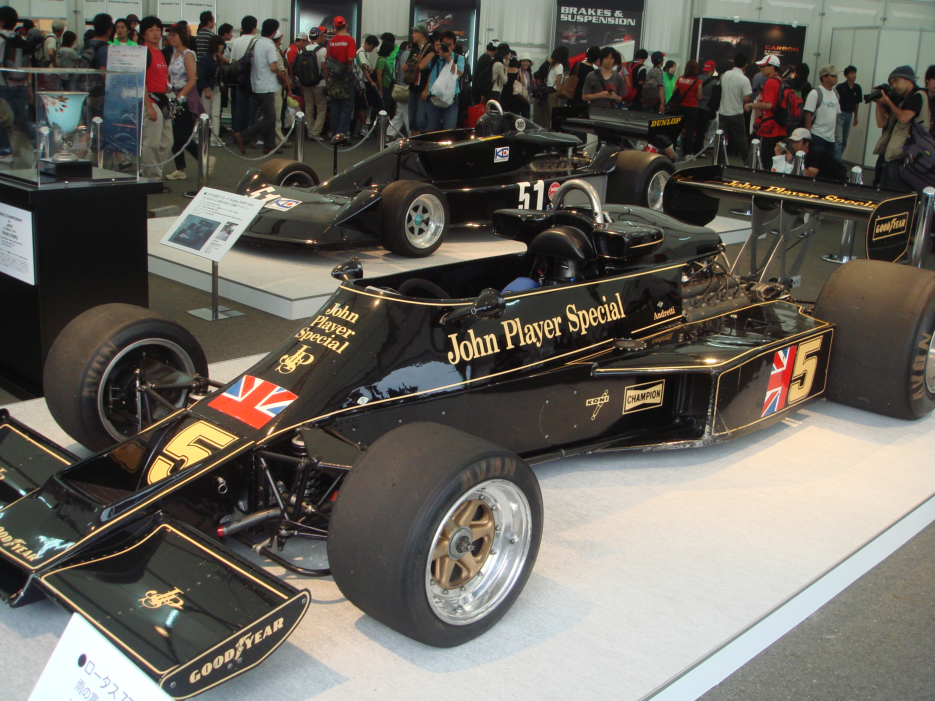 A Lotus 77 on display at the Japanese Grand Prix